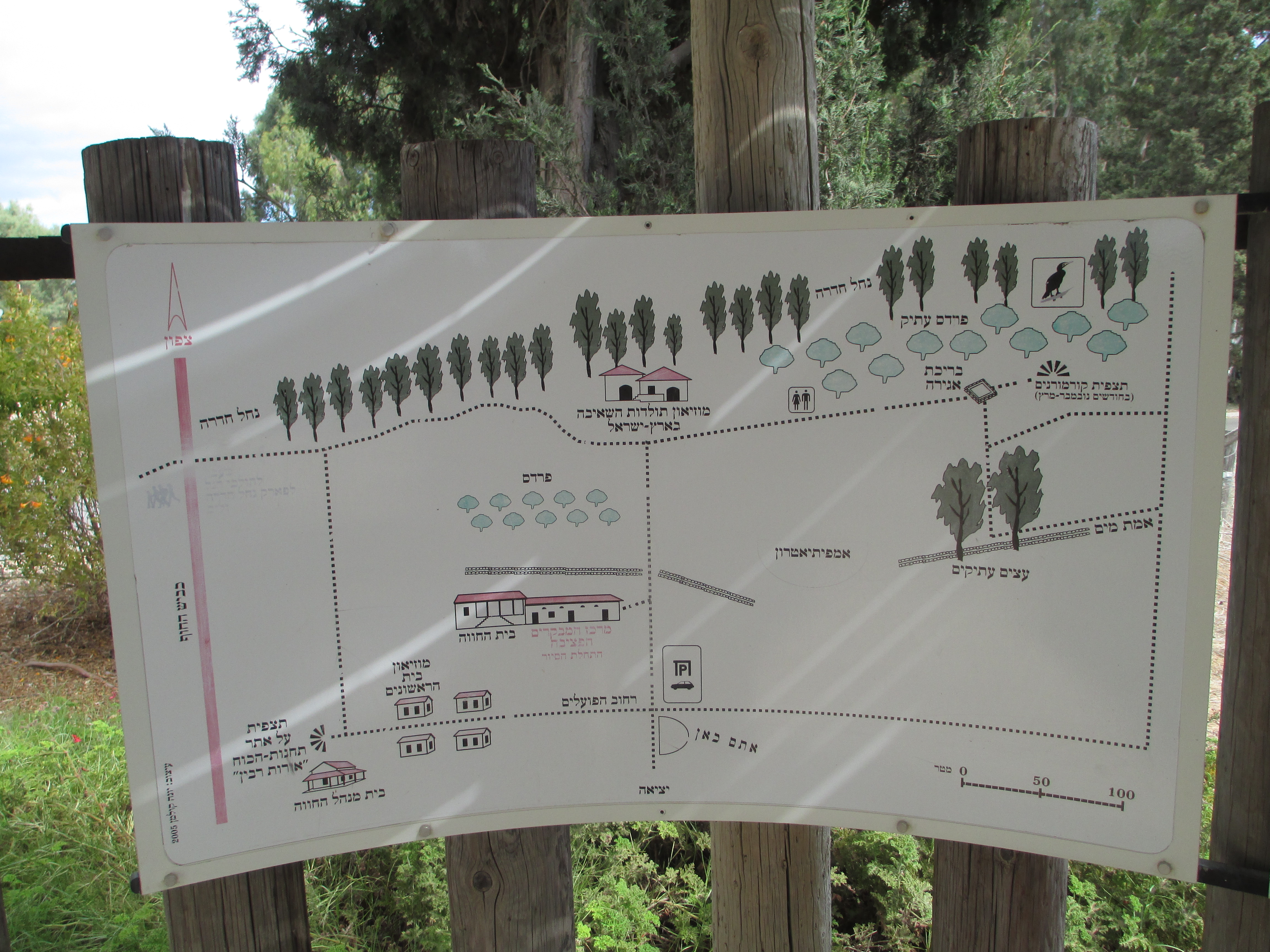 Heftzi-Ba Farm